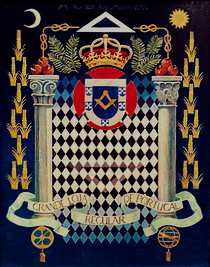 Estandarte GLRP. Foto de Carlos Botelho do Original no acervo da Grande Loja Regular de Portugal. Lisboa, 2005. GLRP Coat of Arms. Photo by Carlos Botelho from the original at the Great Regular Lodge of Portugal. Lisbon, 2005.